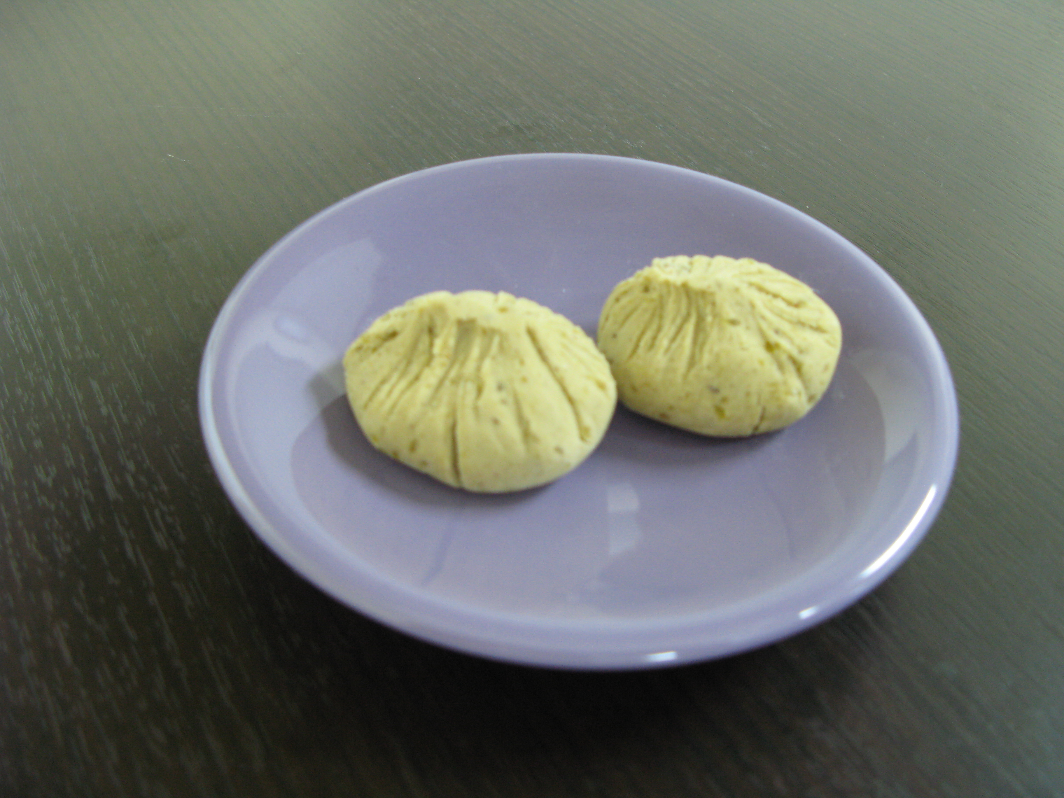 Kurikinton :Japanese sweets made of chestnuts